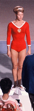 Larysa Latynina of Soviet Union on the podium during Women's Horse Vault medal ceremony of the Artistic Gymnastics during the Tokyo Olympics at Tokyo Metropolitan Gymnasium on October 22, 1964 in Tokyo, Japan.